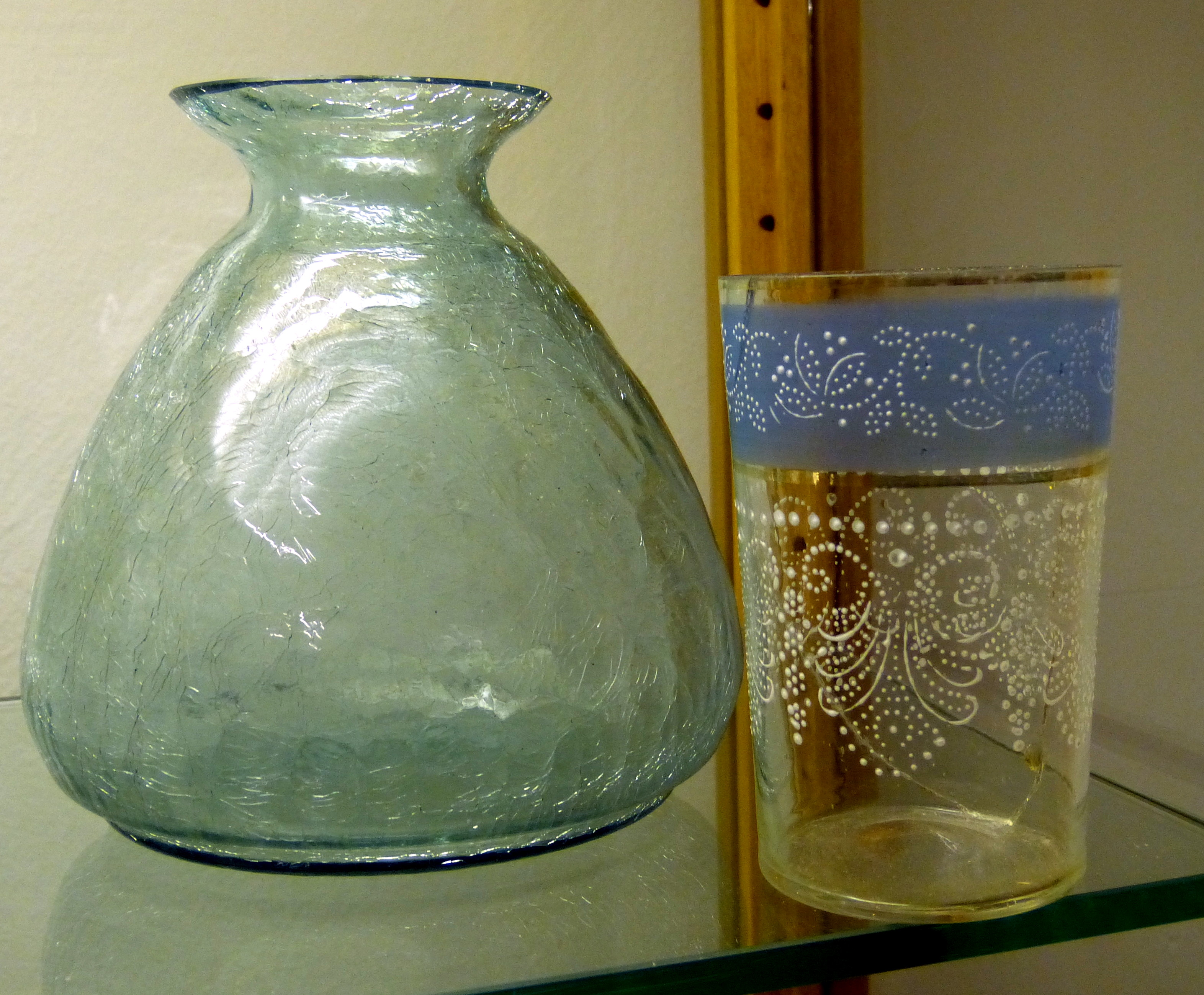 Ulrichsberg ( Upper Austria ). Heimathaus - glass collection: Green forest glass.